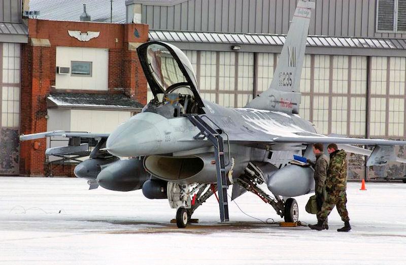 USAF F-16C block 30 #86-0235 from the 107th FS is spotted at Selfridge ANGB with Captain Brian Davis, left and Technical Sergeant Gene Meade, right going over the forms under their F-16 fighter during preperations to deploy on February 24th, 2004. [USAF photo by John S. Swanson]